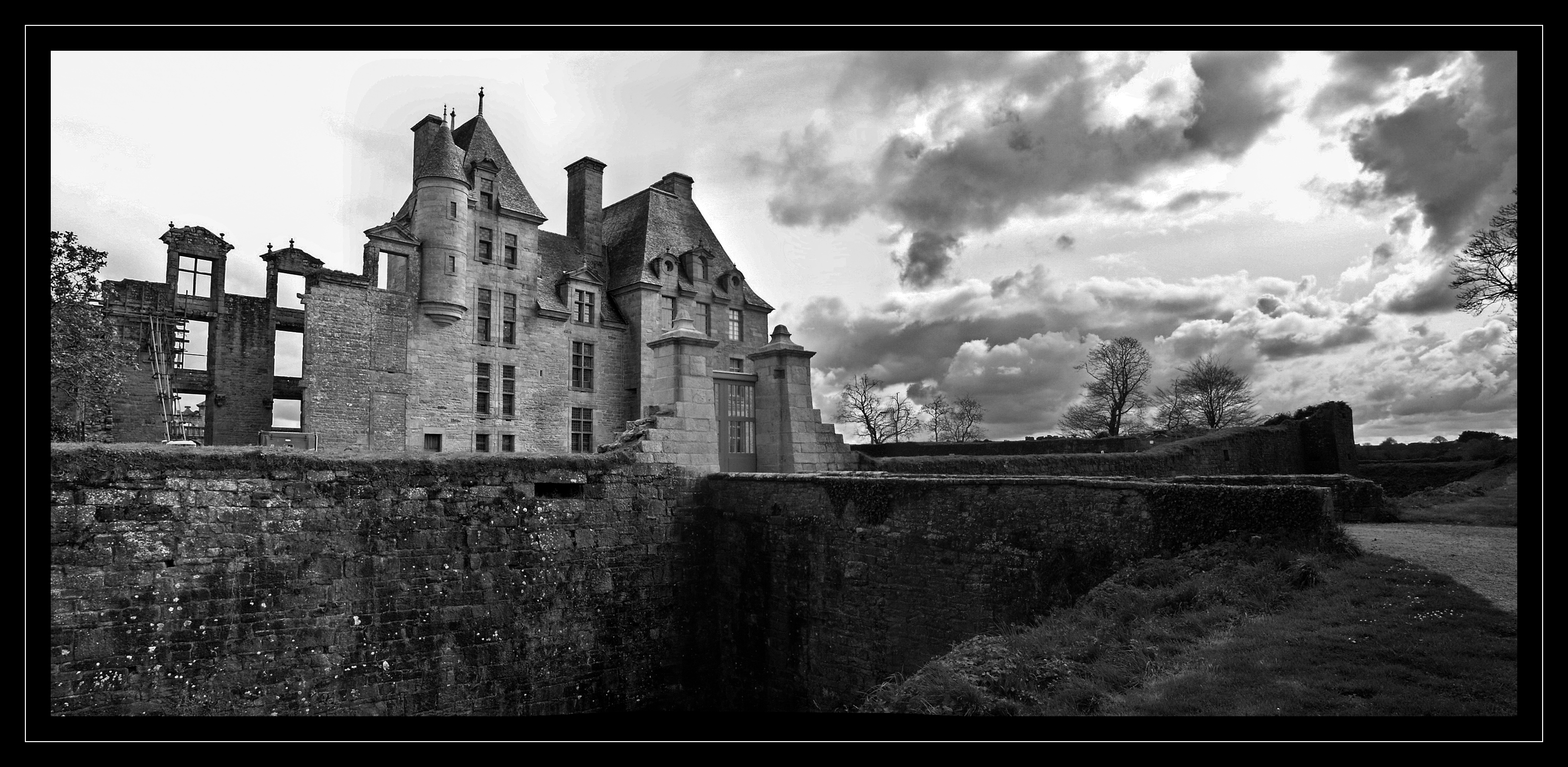 Castle of Kerjean, Northern Brittany, France. Backside view.